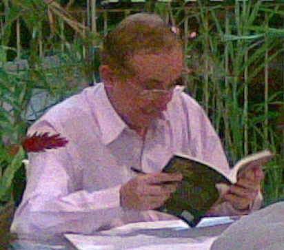 Julio Cabrera autographs and chats with friends and readers at the launch of his book Diary of a Philosopher in Brazil, in Sebinho.